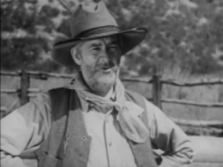 George "Gabby" Hayes in The Lawless Frontier, a 1934 film by Robert N. Bradbury